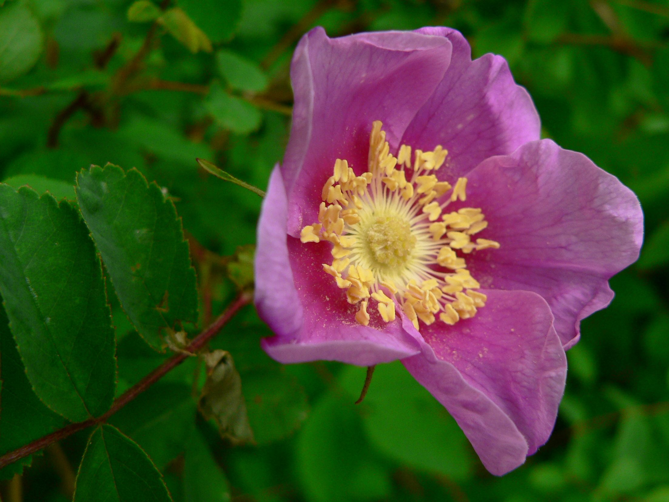 Nootka Rose (Rosa nutkana) Viewpoint location: Oaks to Wetlands Trail, south of Boot Lake, Carty Unit, Ridgefield National Wildlife Refuge